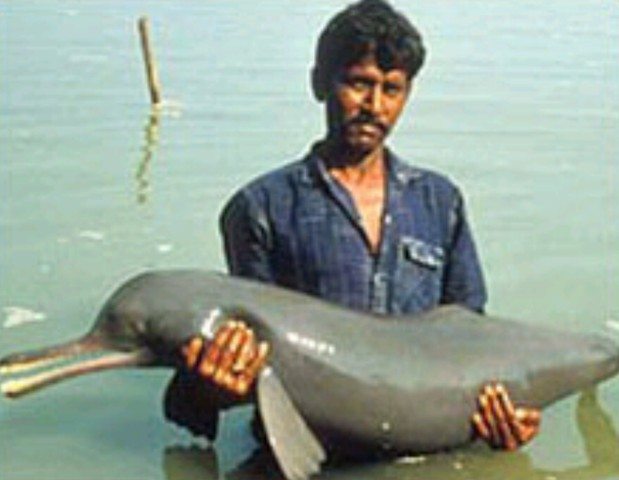 Dolphin in ganga